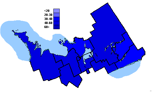 Map made by uploader (User:Earl Andrew); see [1] (question about source) and [2] (response).